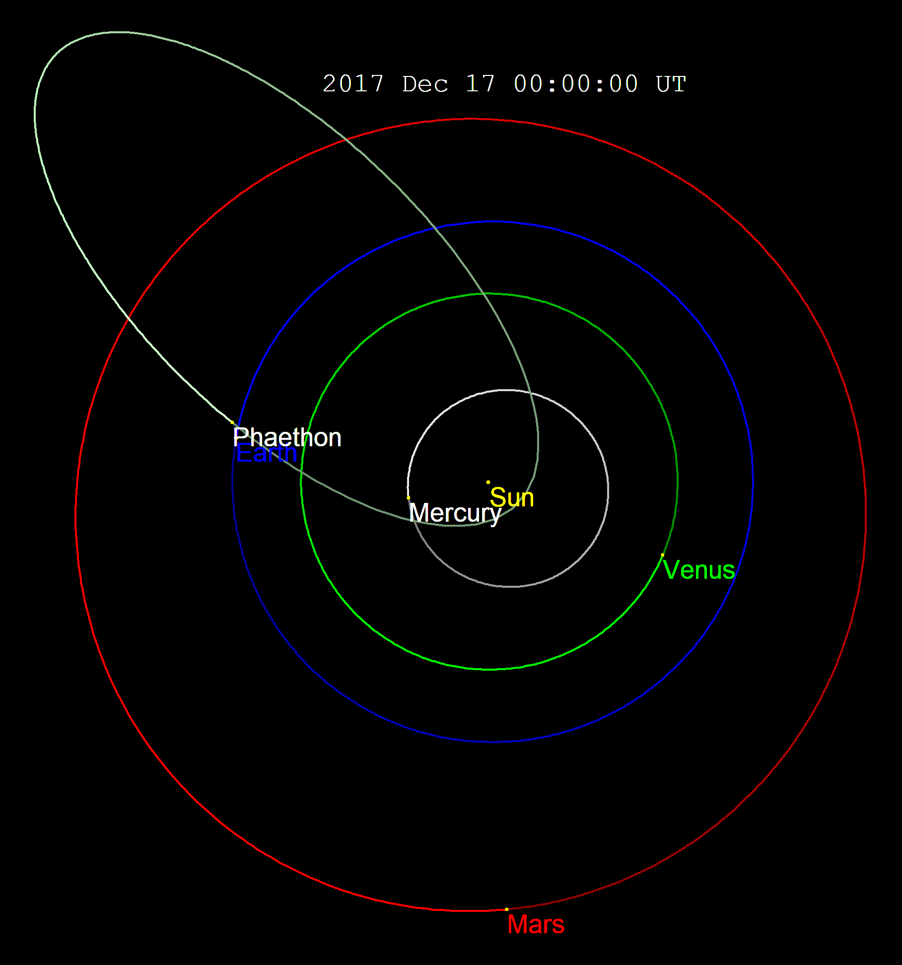 en:3200 Phaethon orbit and near-earth flyby on December 17, 2017.